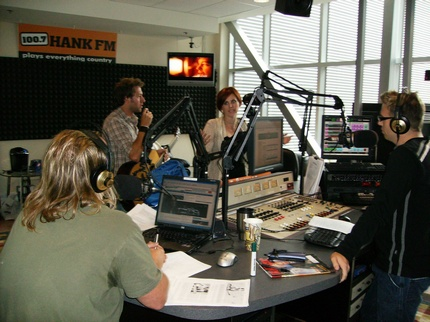 Unidentified. Looks like a radio station studio.